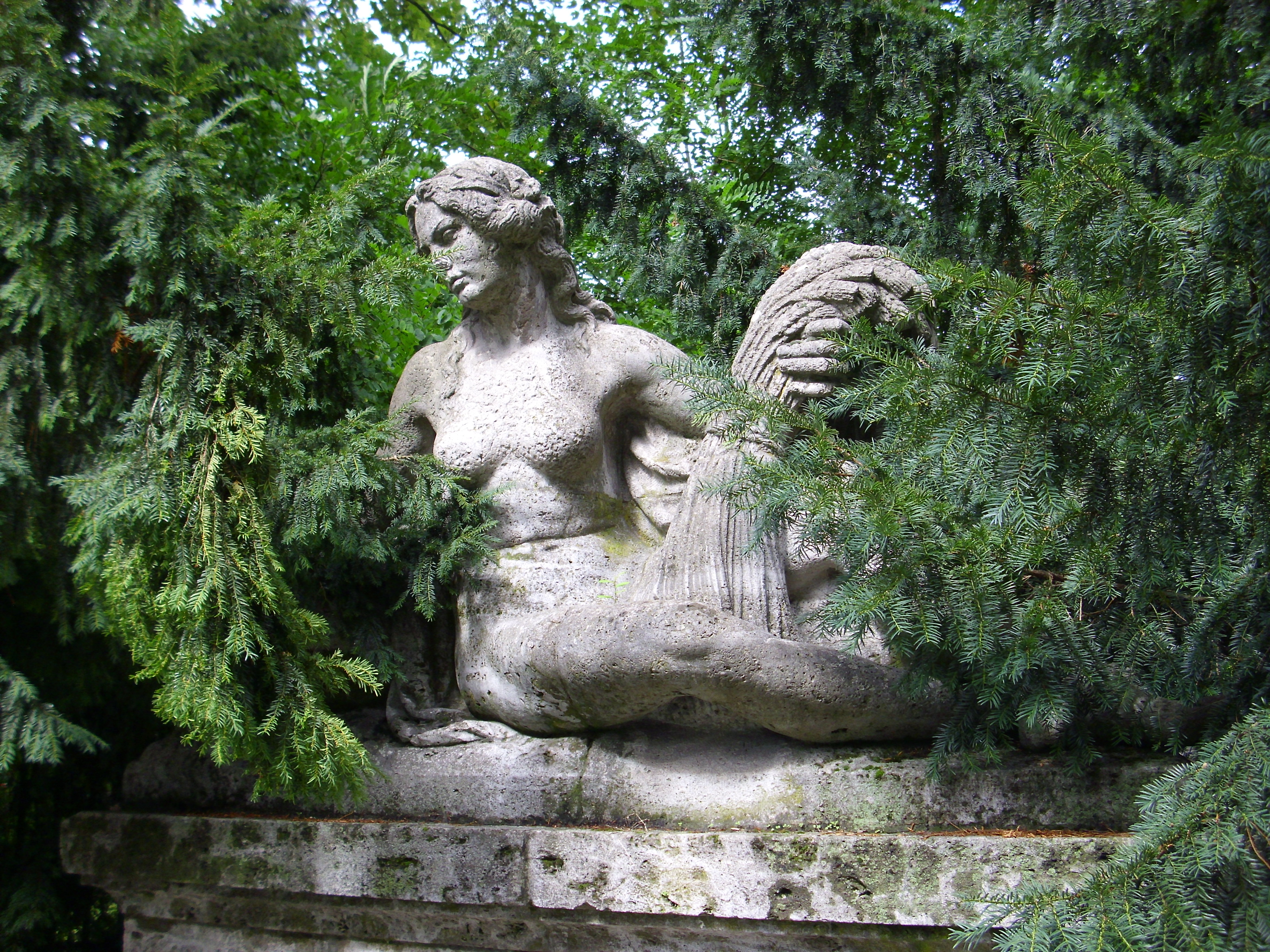 Pomonafigure (1915) by Philipp Kittler